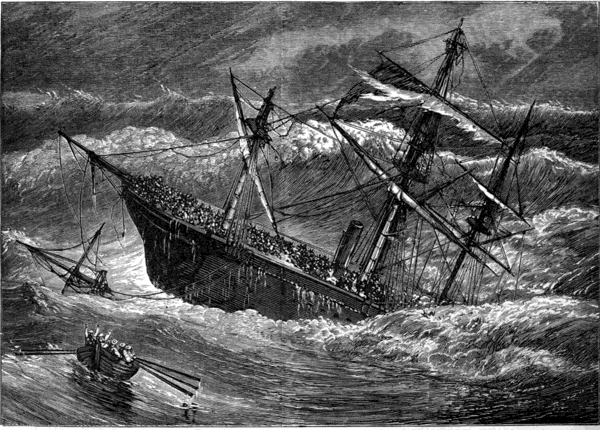 The SS London sinking in a storm.